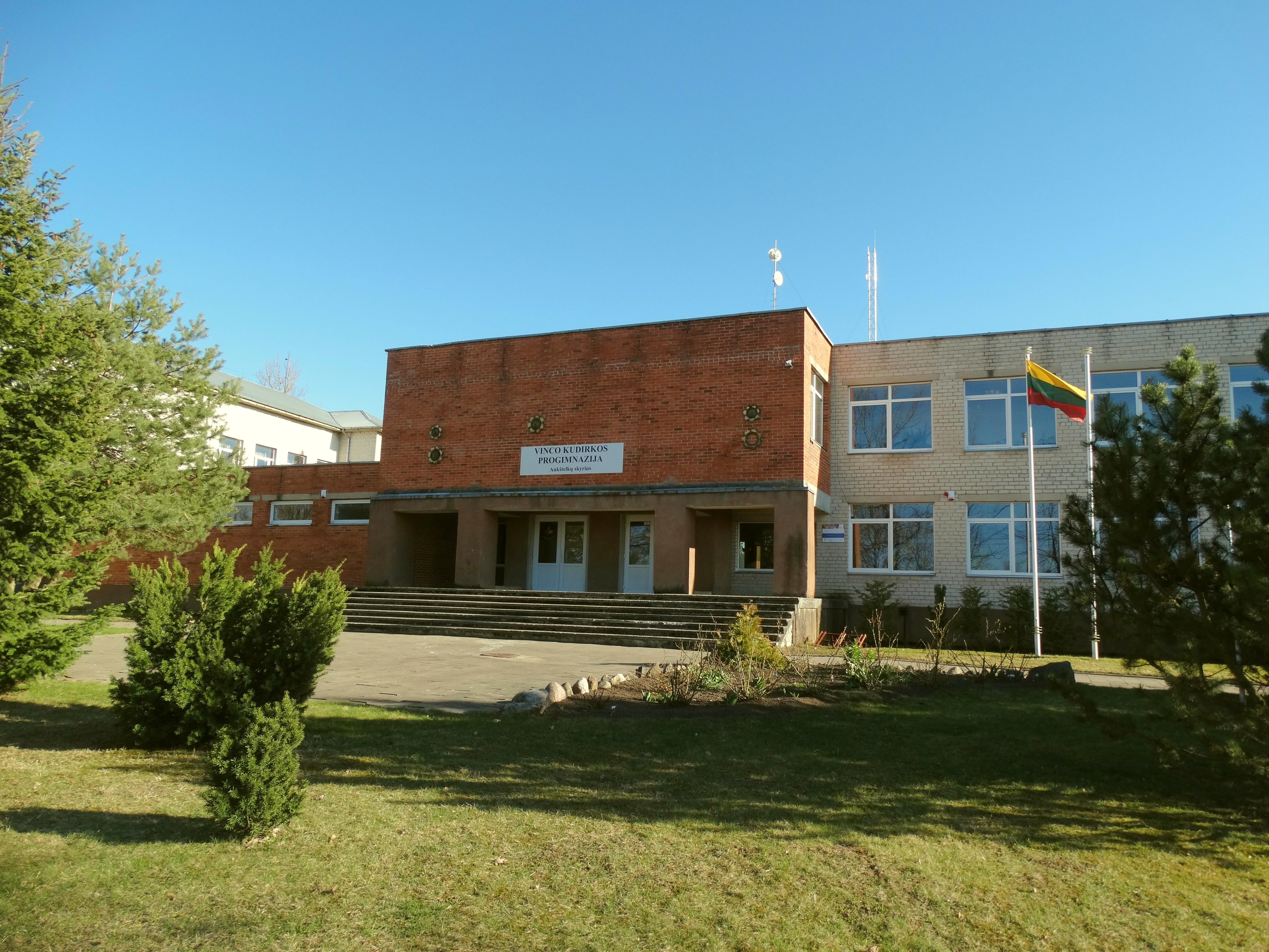 School, Aukštelkai, Radviliškis District, Lithuania